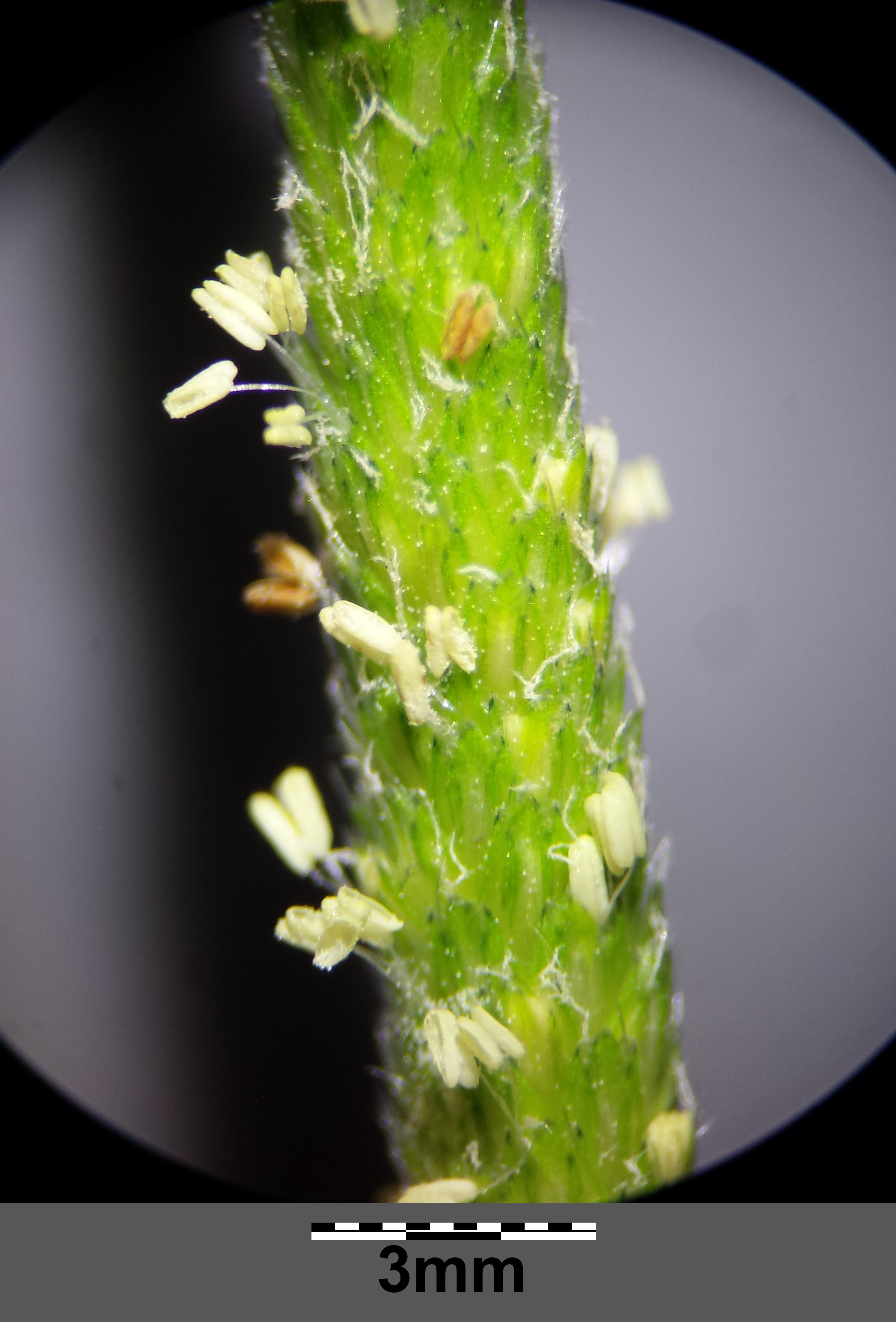 Inflorescence (detail) Taxonym: Alopecurus aequalis ss Fischer et al. EfÖLS 2008 ISBN 978-3-85474-187-9 Location: pond to the south of Pyhrabruck, district Gmünd, Lower Austria - ca. 550 m a.s.l. Habitat: edge of a pond